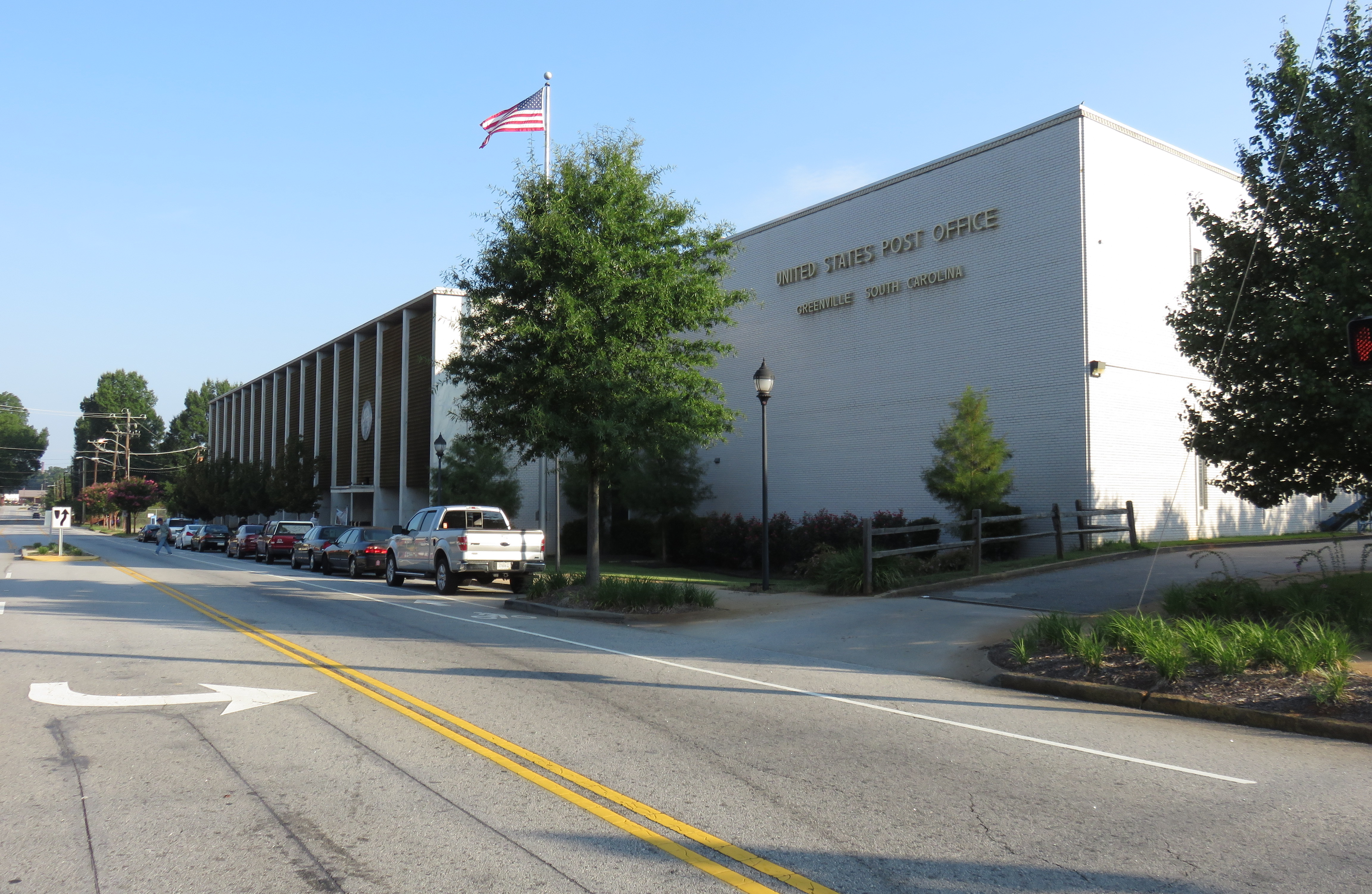 Greenville Main Post Office in Greenville, South Carolina in 2017